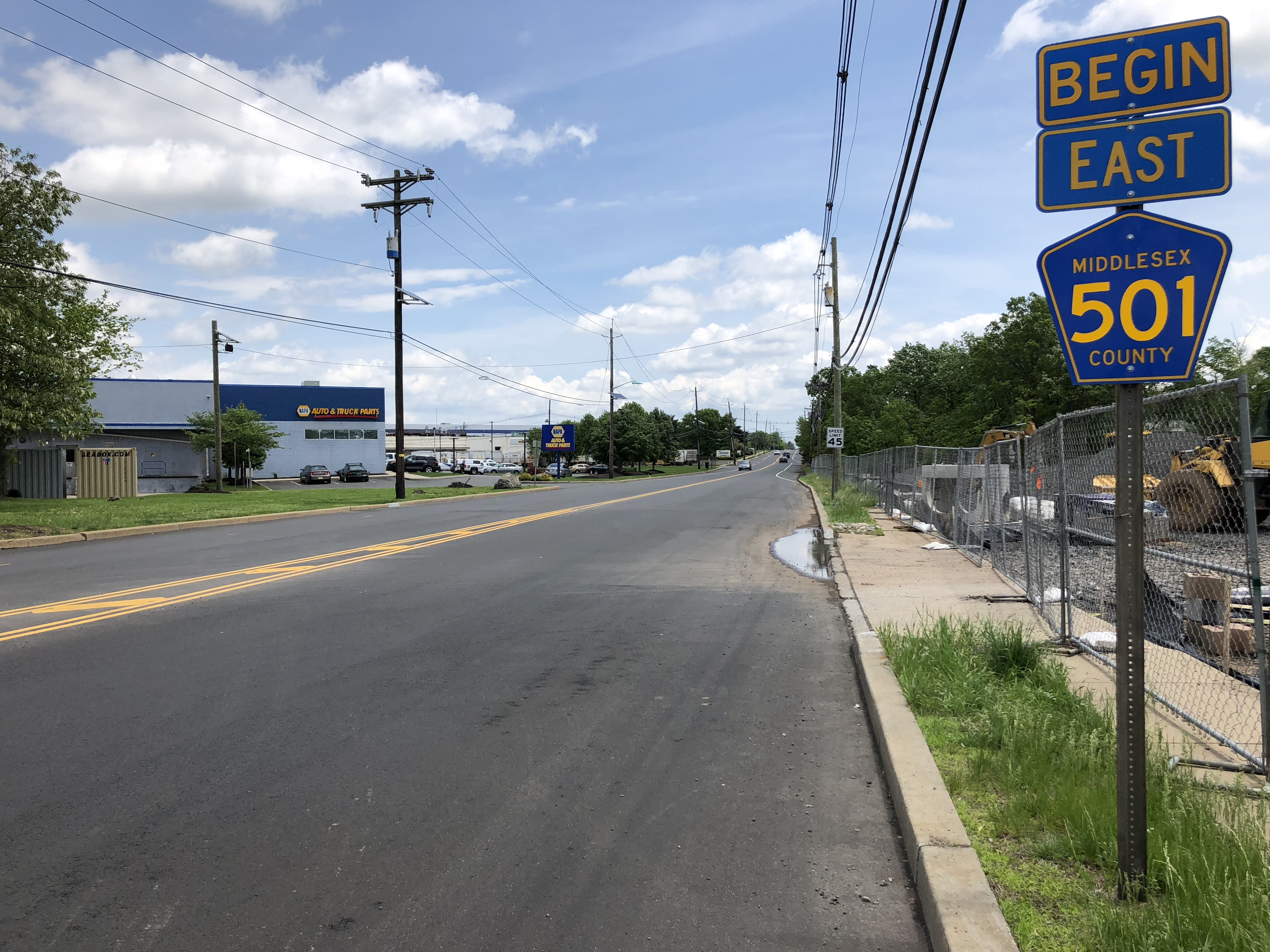 View east along Middlesex County Route 501 (New Durham Road) at Middlesex County Route 529 (Stelton Road) on the border of Piscataway Township and South Plainfield in Middlesex County, New Jersey